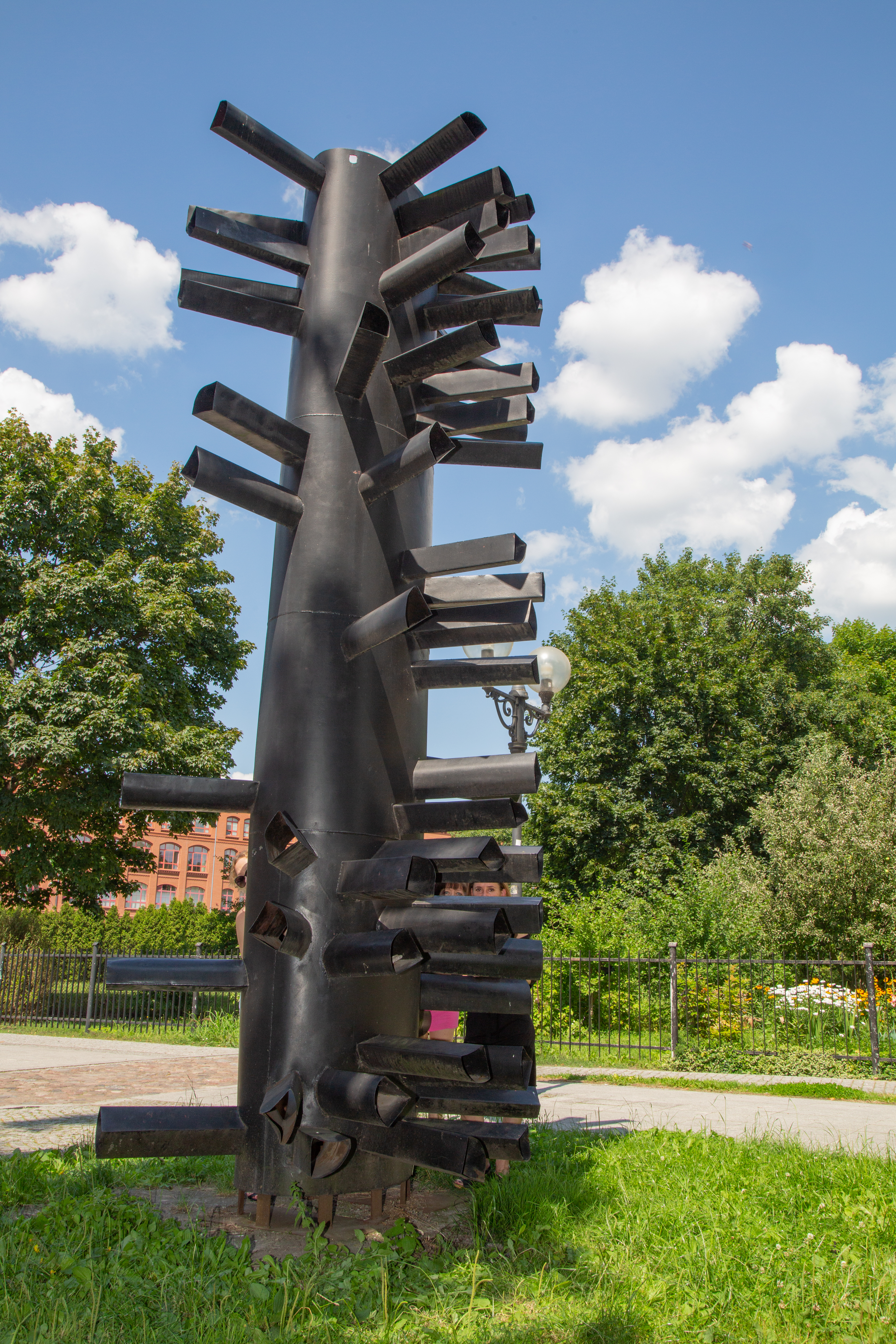 Standing Shape (pl.Forma stojąca or Forma przestrzenna) by Magdalena Abakanowicz, 1965, steel. The spatial form created by Magdalena Abakanowicz during the 1st Biennial of Spatial Forms in Elbląg (1965), (in cooperation with J. Podwalny, J. Sznajder). It is 7 meters high. Located at Przymurze street, close to the Targowa Gate. In the background, visual artists: Iwona Demko and Agata Zbylut with curator Karina Dzieweczyńska, while working on the project entitled "Congress of dreamers / Kongres Marzycielek” carried out at the Art Center Gallery EL.